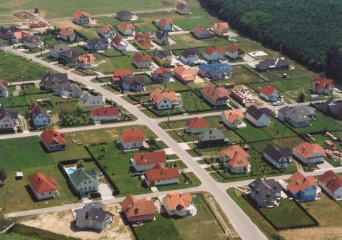 Lenti, Hungary, aerialphotgraphy, New streets of Lenti